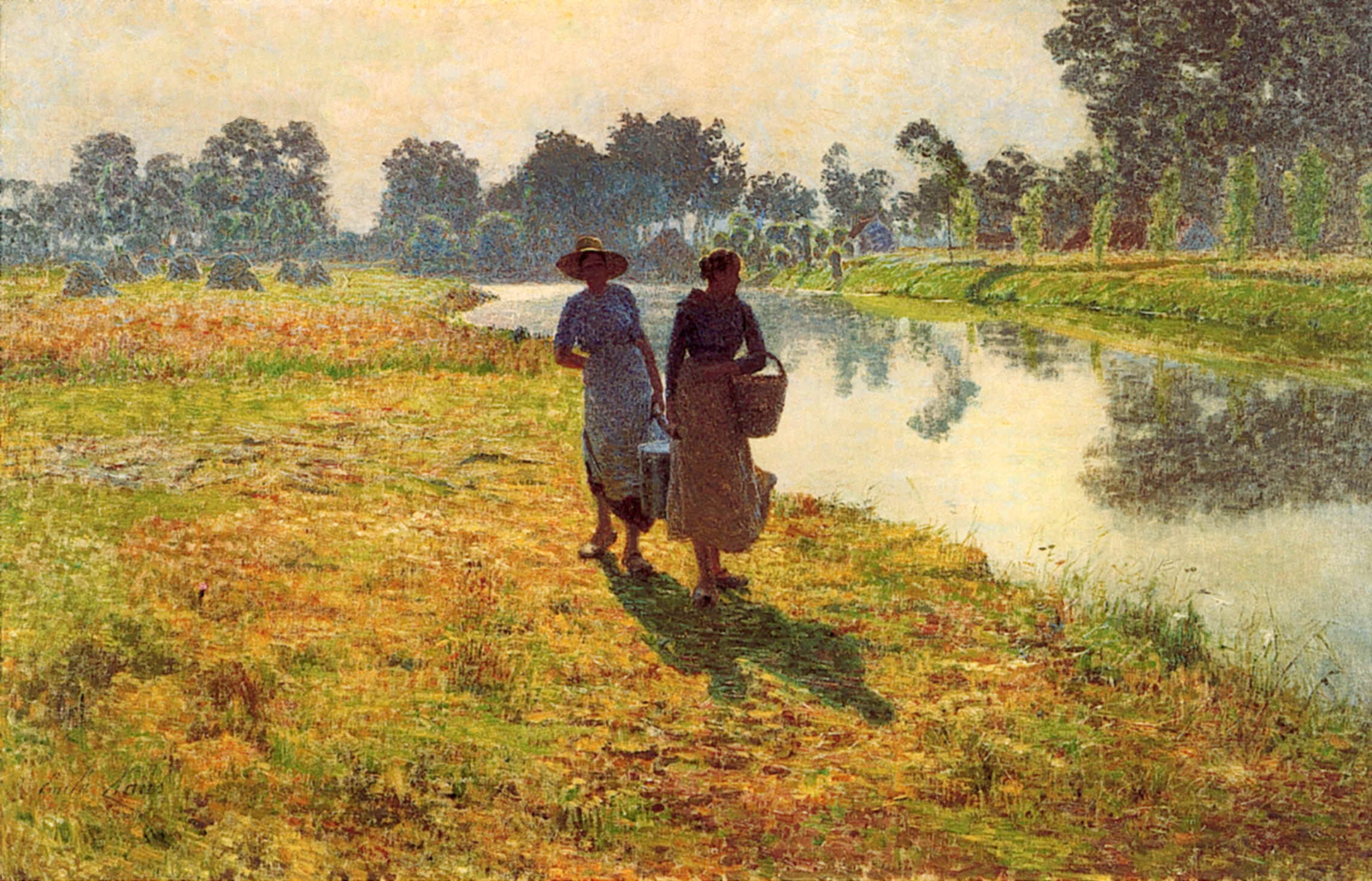 Painting by Emile Claus, "Young peasant women at the Leie"